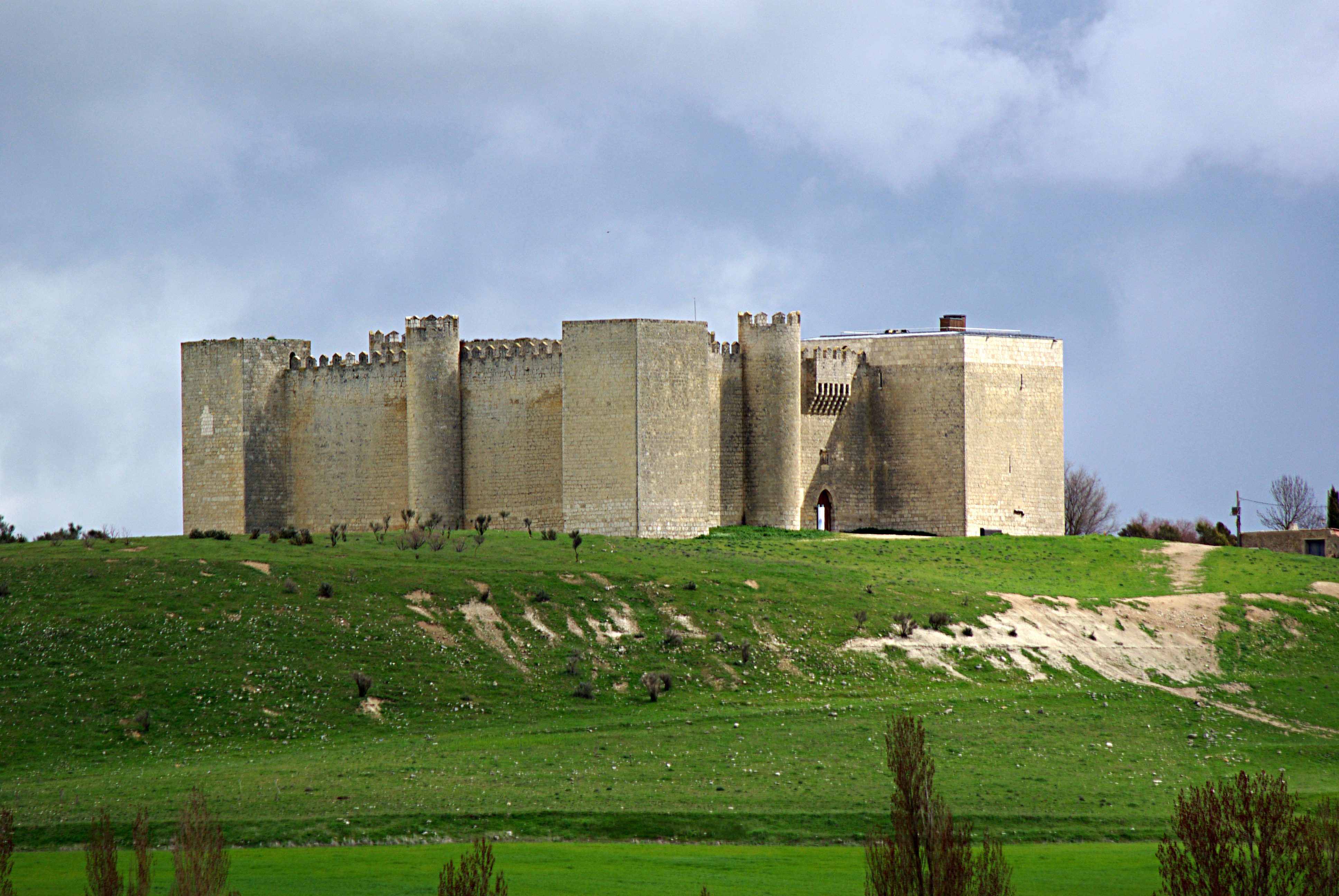 Castle of Montealegre (Valladolid, Spain)